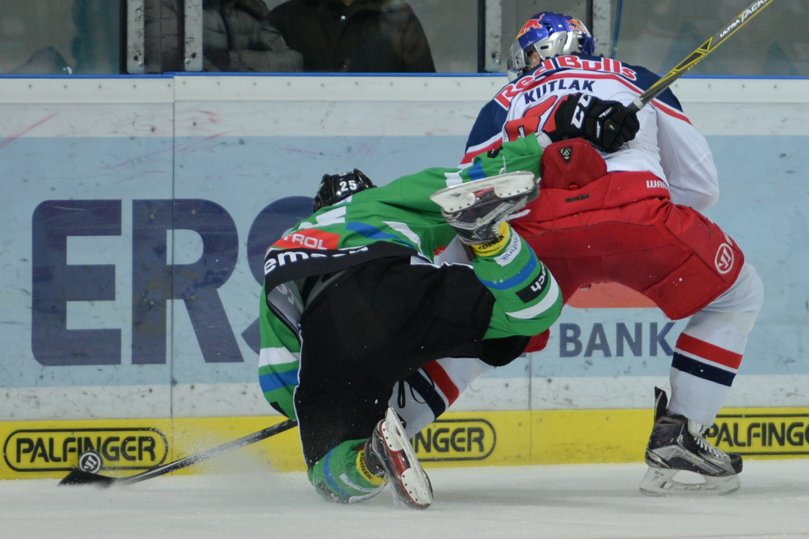 EBEL Red Bull Salzburg vs Olimpija Ljubljana 2016-01-17